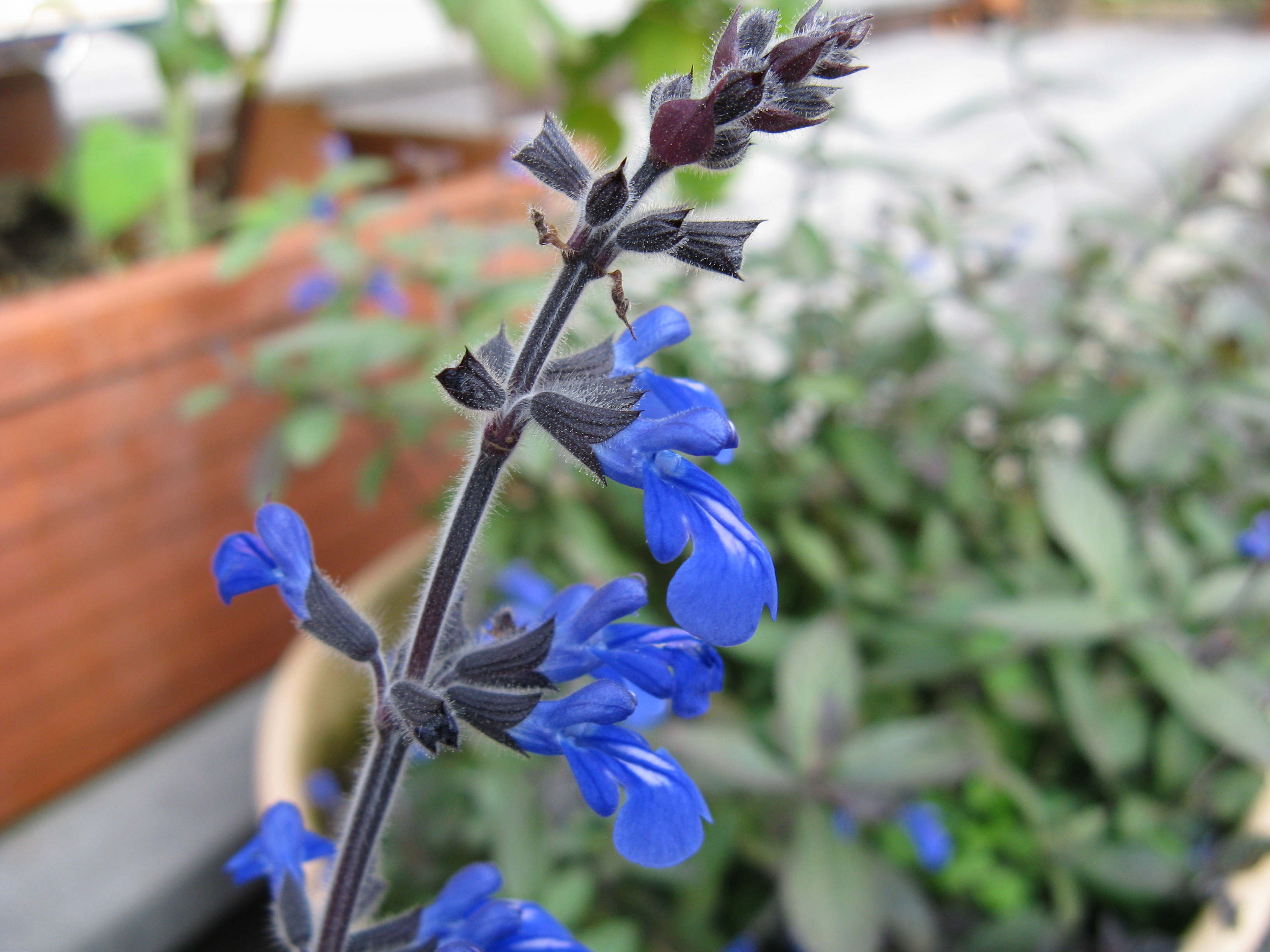 Scientific name Salvia sinaloensis Place:Osaka Prefectural Flower Garden,Osaka,Japan